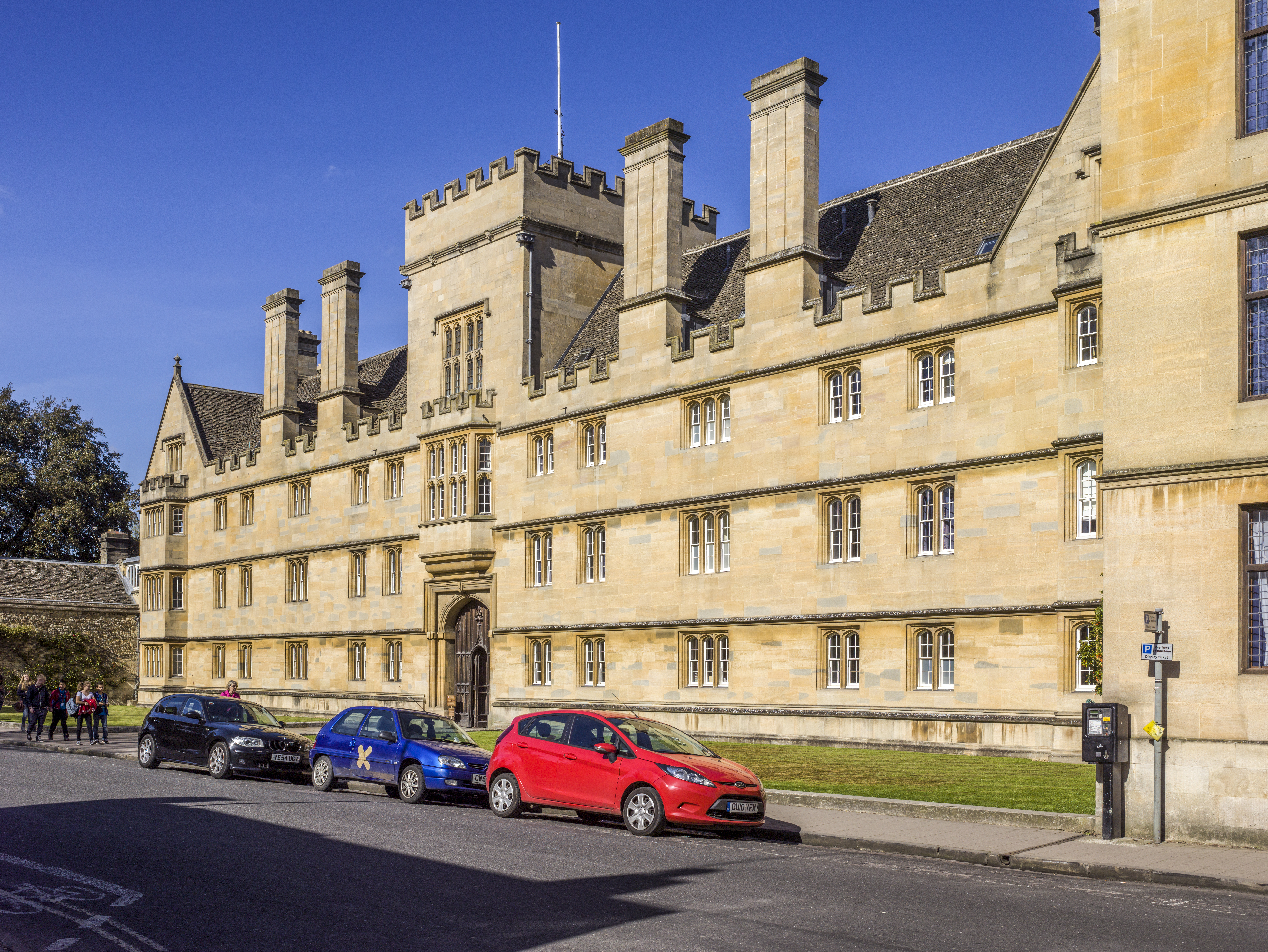 Wadham College (Oxford University) founded in 1610. View of front.